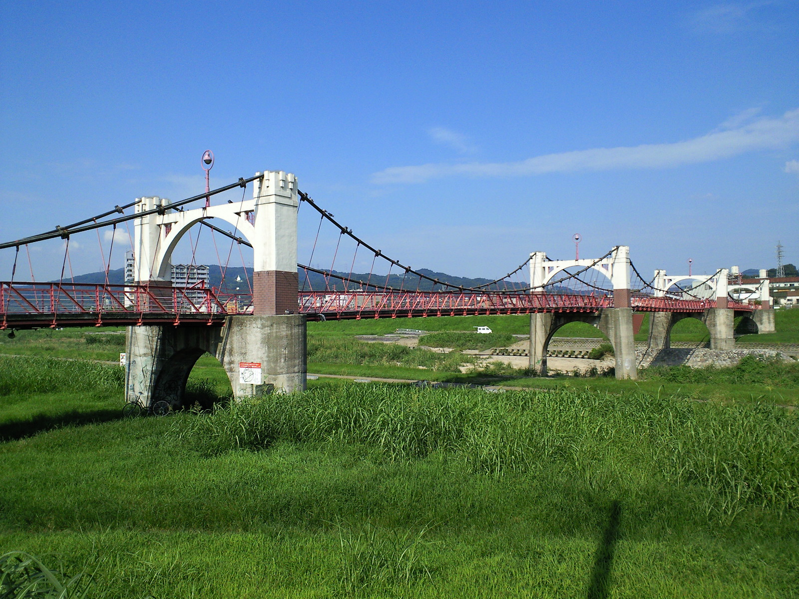 Tamate-basi (Bridge), Hujiidera and Kashiwara, Osaka